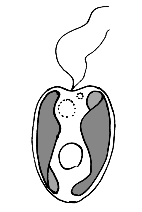 Drawing of the alga Ochromonas sp. (Chrysophyceae)